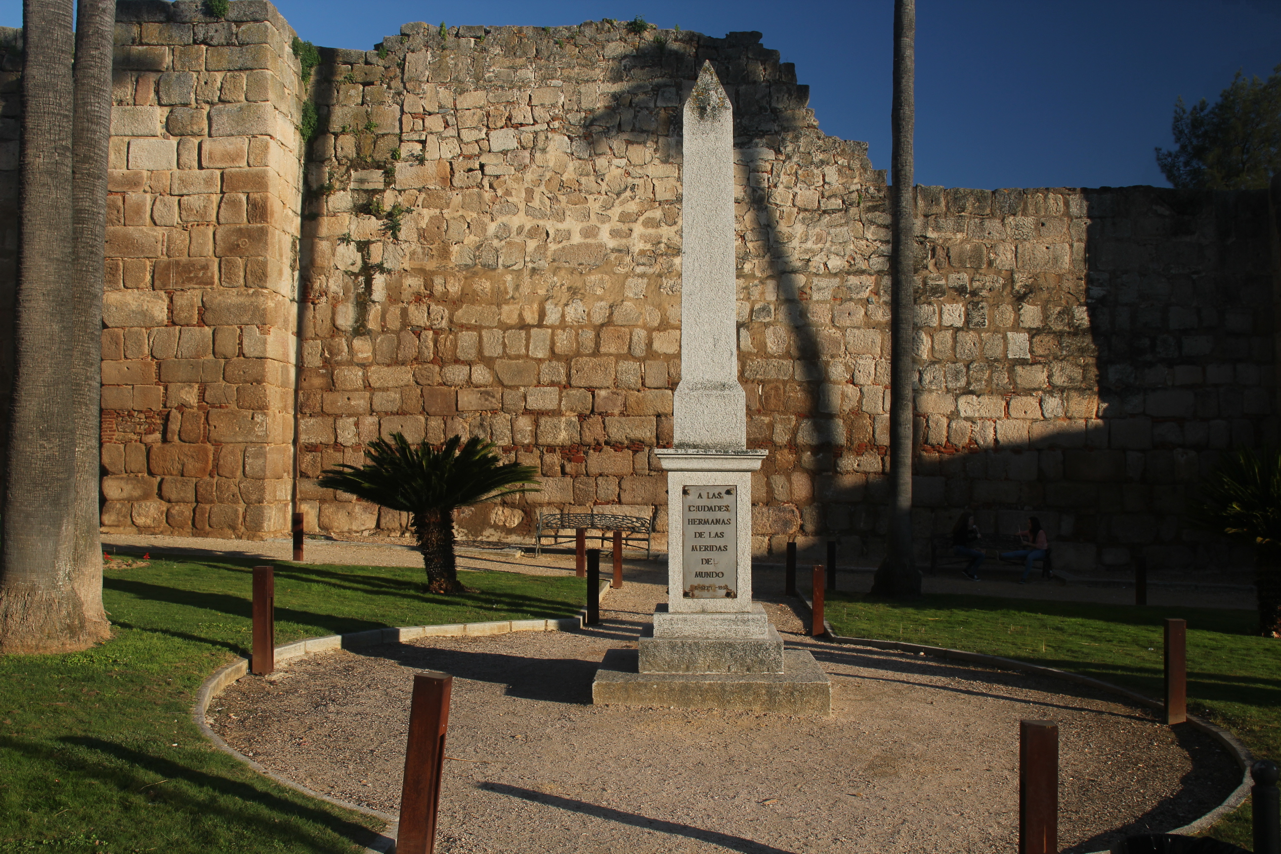 The obelisk dedicated to the twin cities named "Mérida" in Spain, Venezuela and Mexico